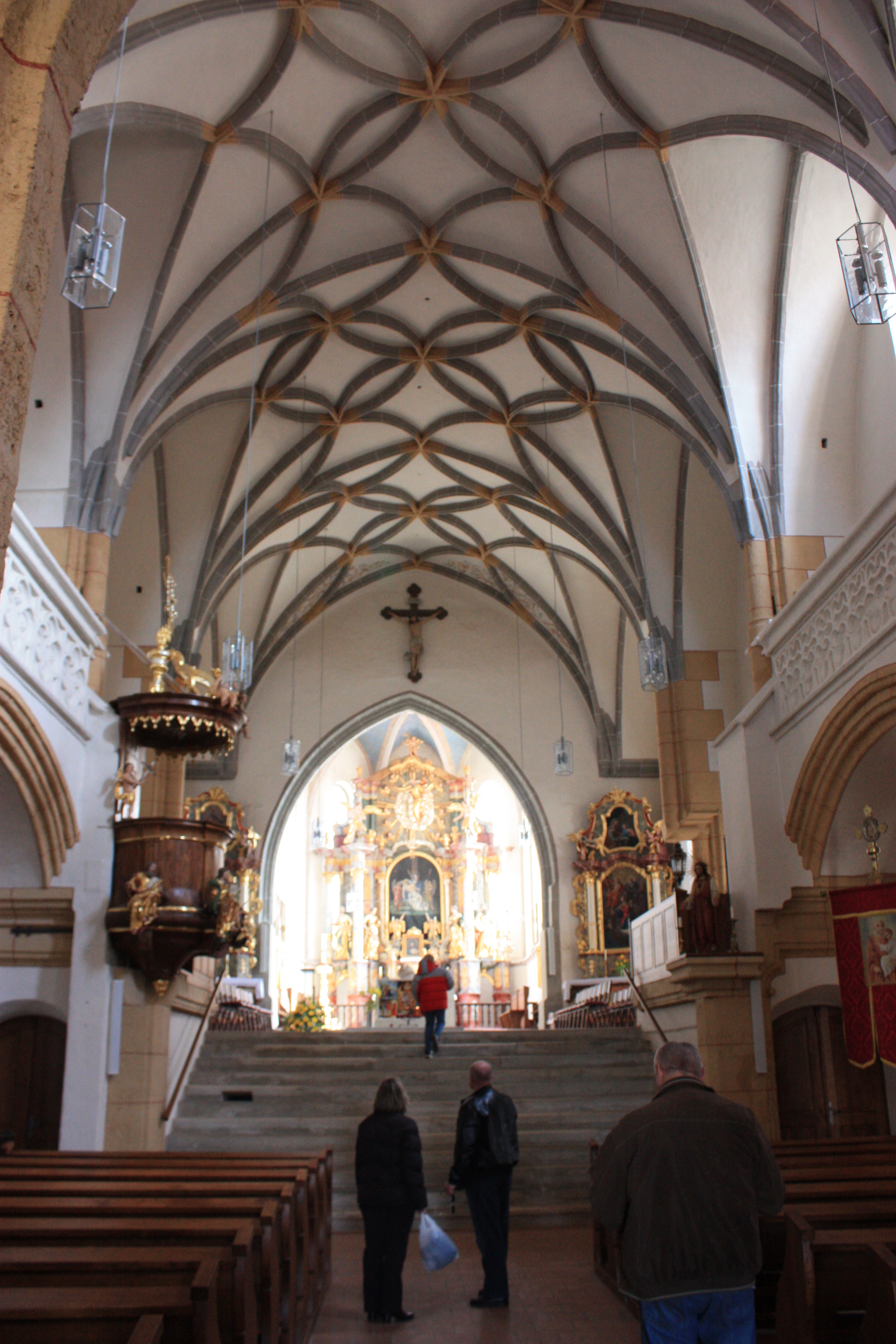 Abbey church - Interior Locality: Eberndorf Community:Eberndorf